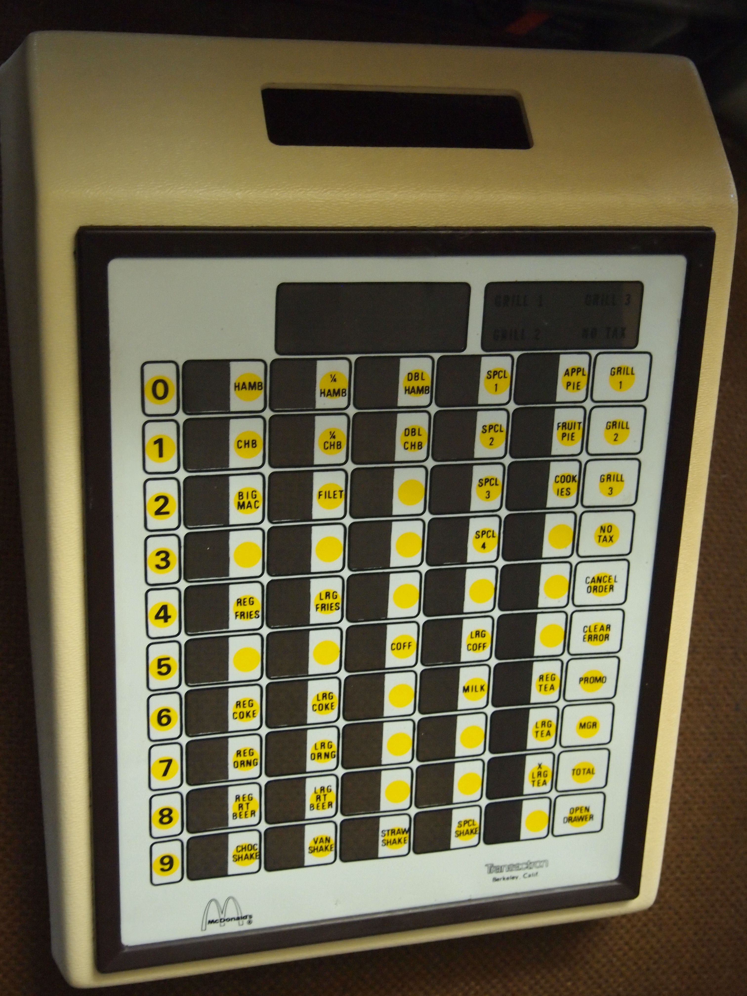 To enhance point-of-sale entry